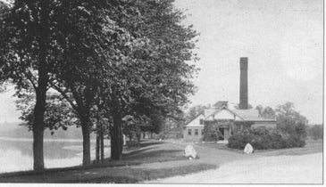 Buckmaster Pond Pump Station in Westwood, MA